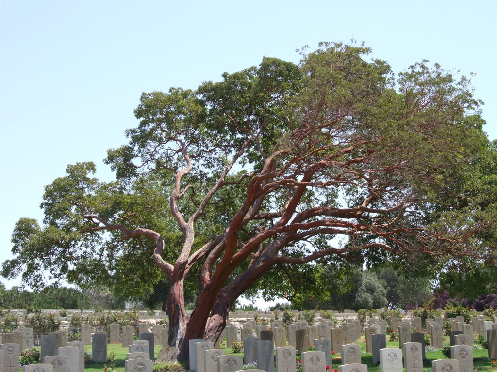 Arbutus andrachne, Greek Strawberry Tree, Jerusalem War Cemetery